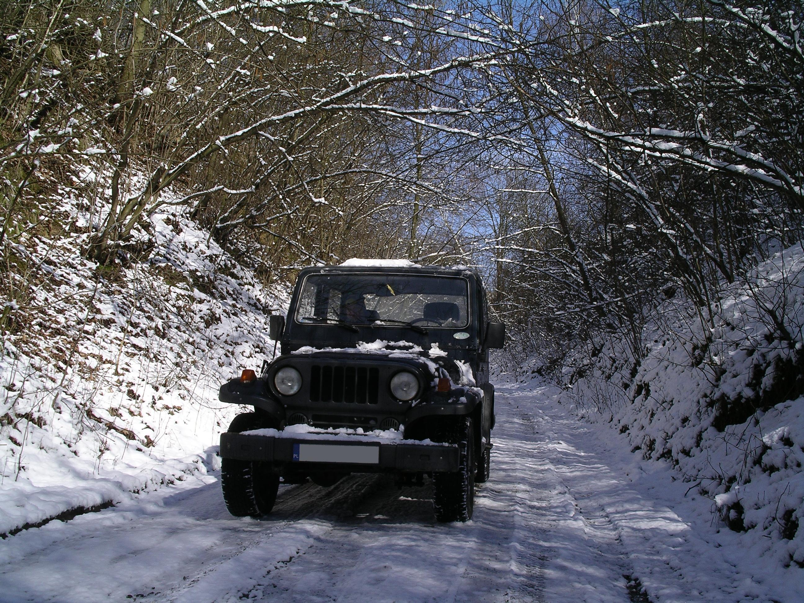 Asia Rocsta